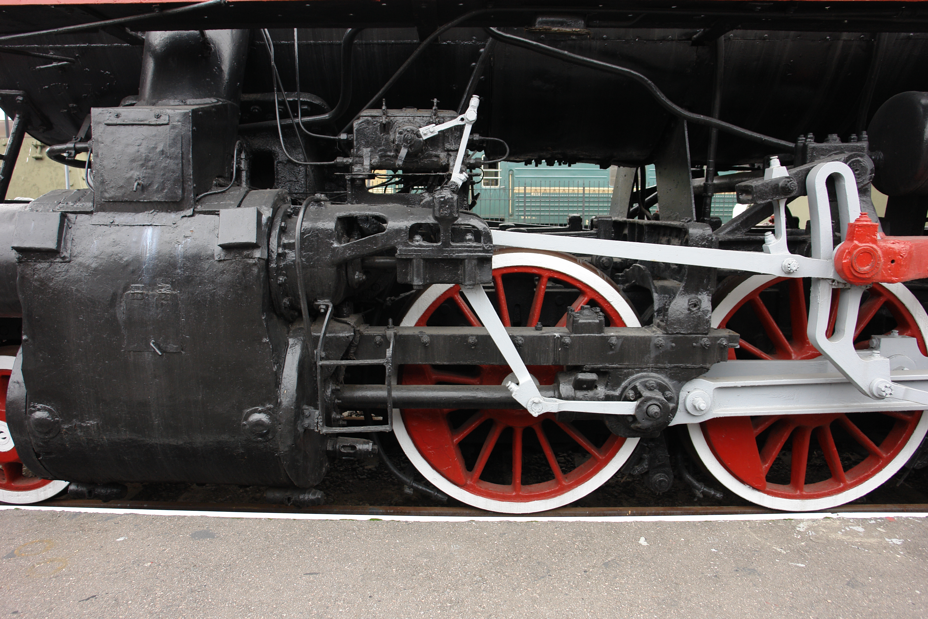 Freight steam locomotive FD20 1103 Weight in serviceable condition:excluding tender137 t.including tender235 t.Design speed85 km/hMaximum power on wheel rim3200 hp. The most powerful series-built steam freight locomotive in Russia (3200 hp.). Named after Felix E. Dzerzhinskiy, former chief of the secret police. The introduction of this class had marked the transition from European to American practice of designing locomotives in the USSR. Built by Voroshilovgrad Works in 1936.